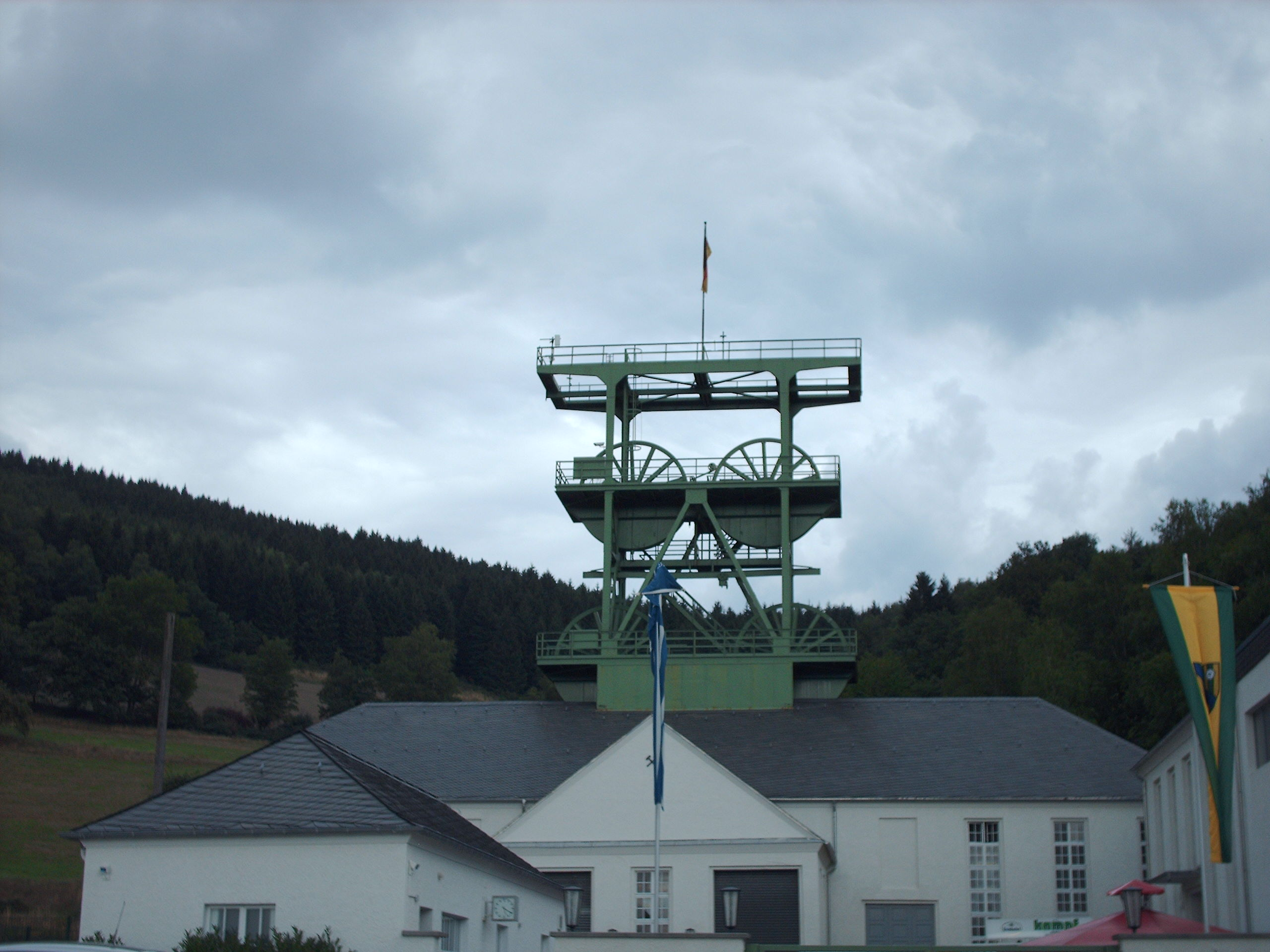 Sicilia winding tower, Lennestadt, Germany check usage